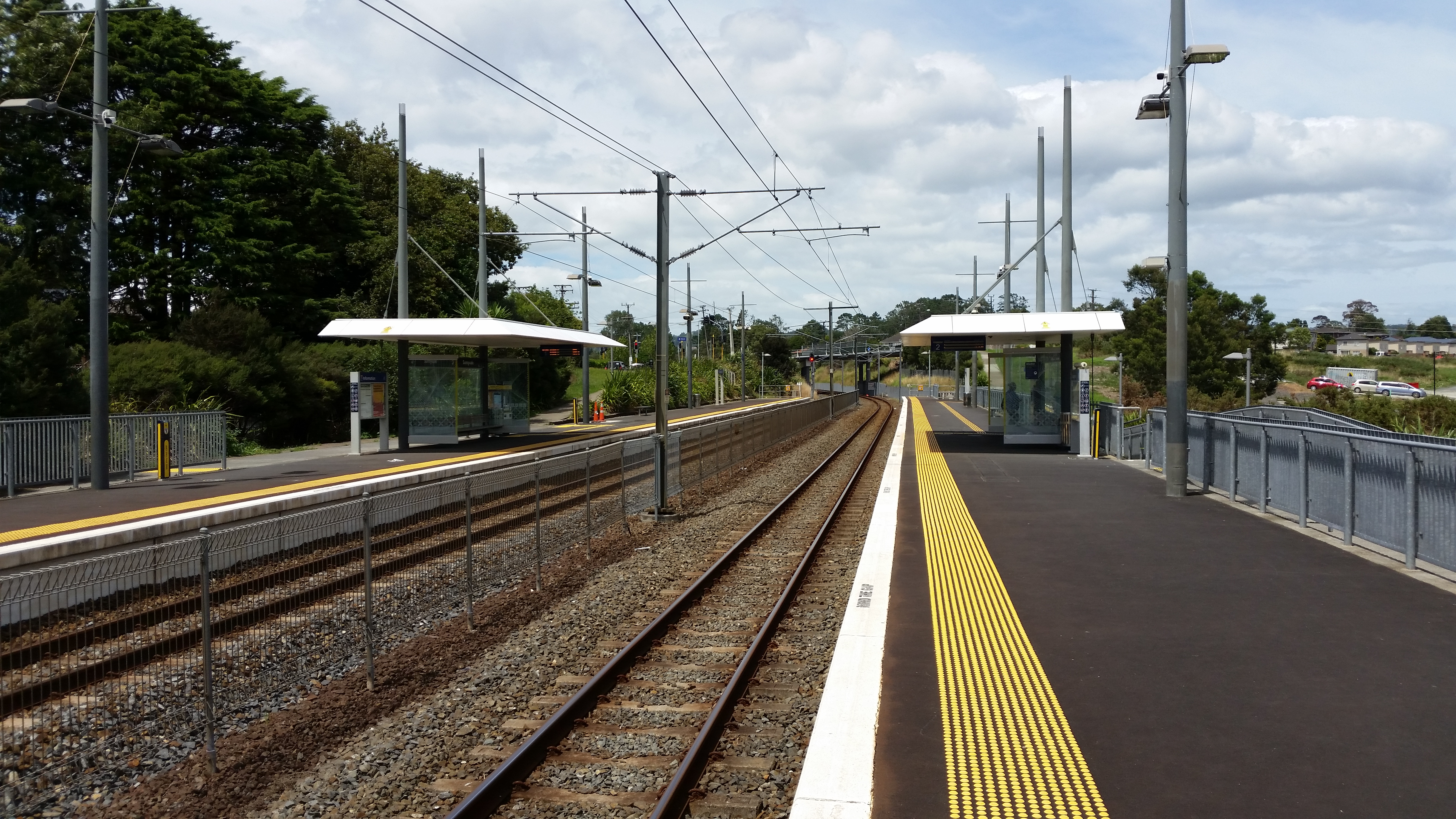 Sunnyvale railway station in Auckland, New Zealand, looking southbound from the northbound platform